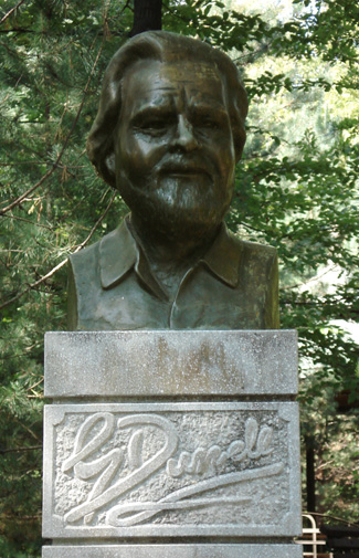 Statue – Zsolt Jószay: Gerald Durrell. Wildlife park, Miskolc, Hungary